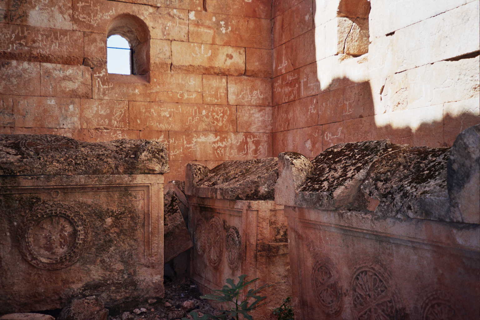 after serjilla, we went to al-bara, another dead city nearby. this one was a lot more overgrown. much of the town was covered in a thick tangle of vegetation (the guidebook says the plans are olives and apricots, descendants of the crops from the village fields), so we didn't really see much of it. instead we hung around the pyramid-topped tombs on the outskirts. this is the interior of one of them.